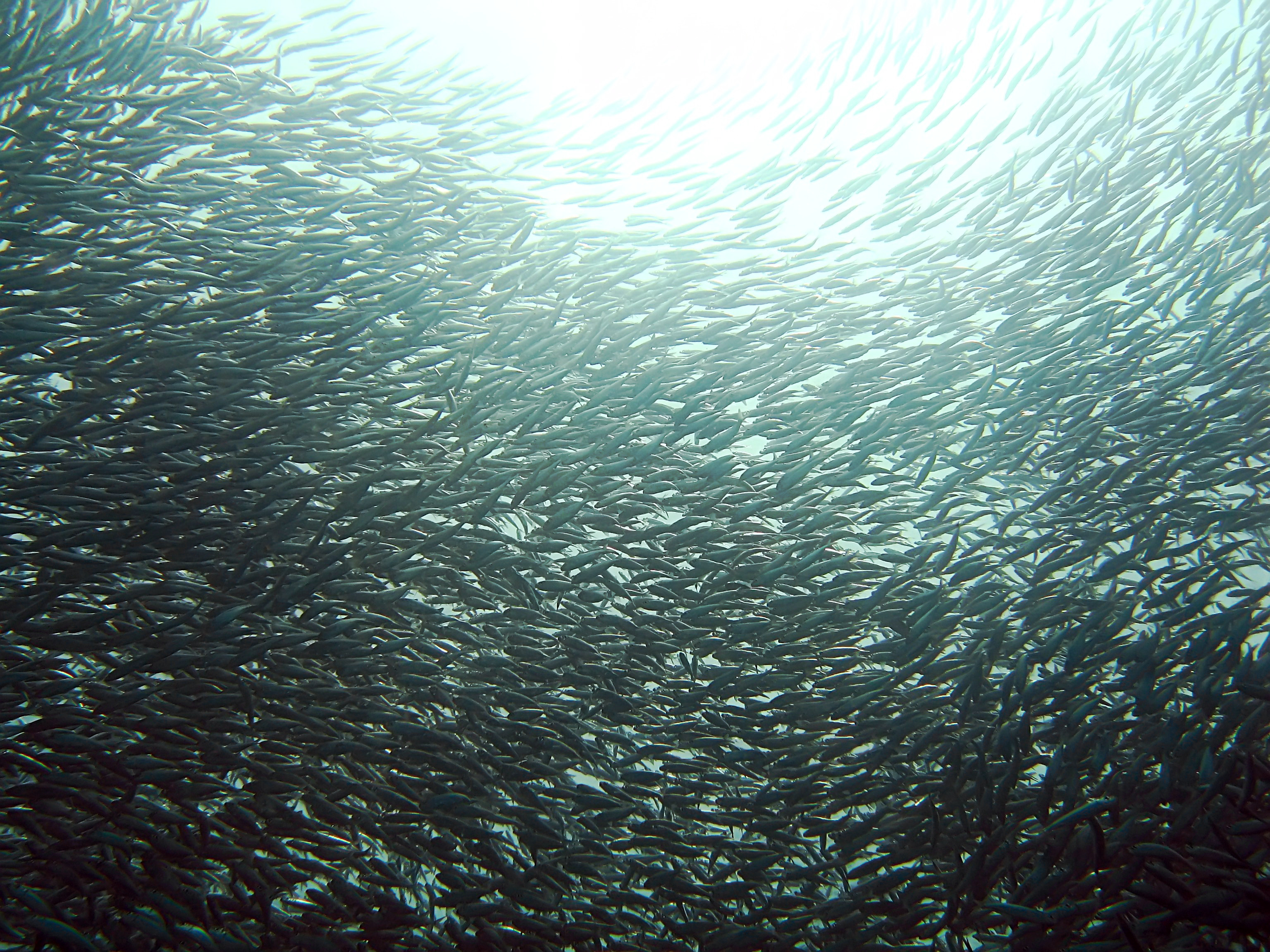 School of Sardines @ Mactan Cebu, Philippines フィリピン、セブ州マクタン島